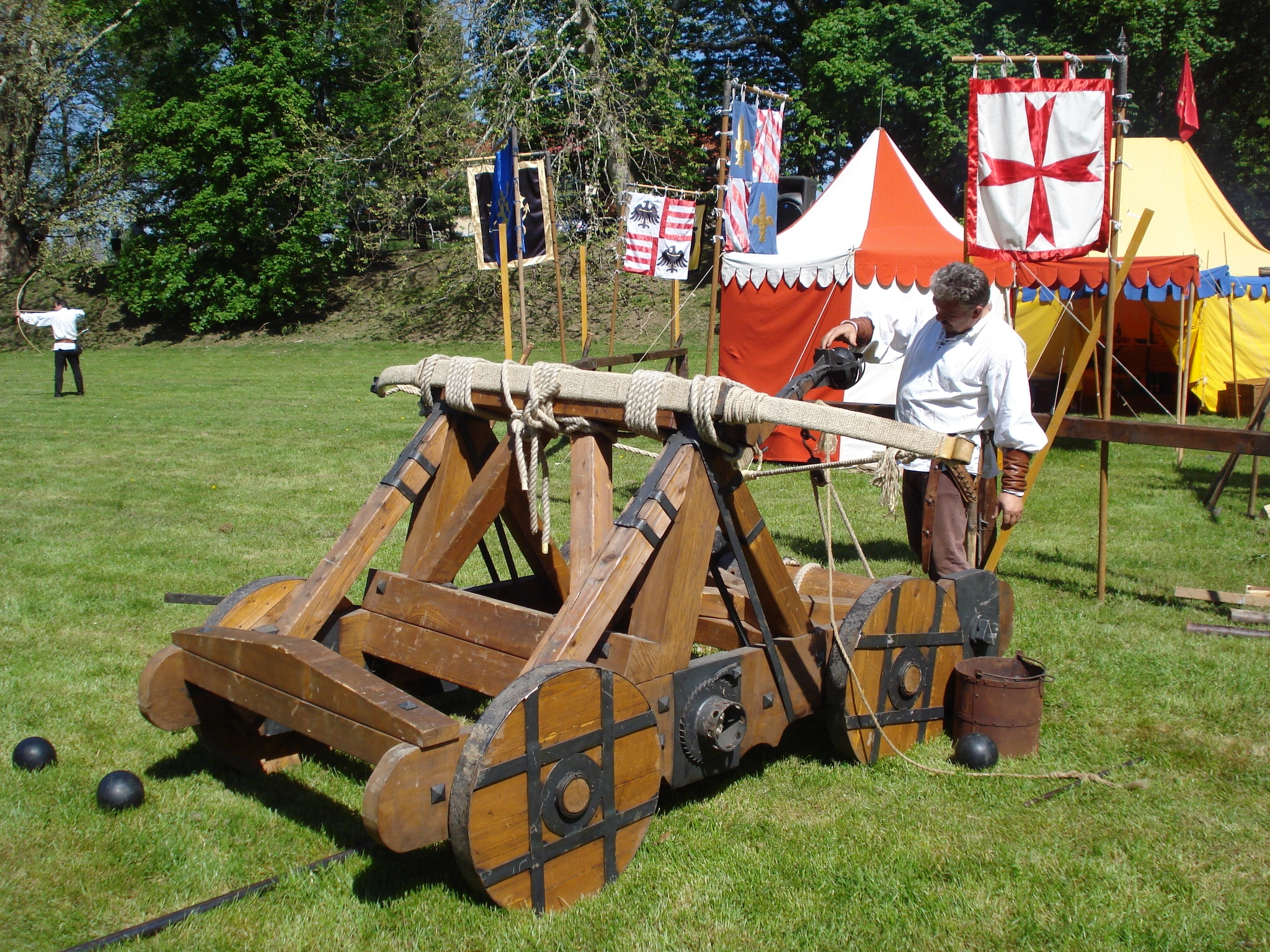 "Knights of Zelingrad Castle", a historical military unit from the Town of Sveti Ivan Zelina near Zagreb, Croatia - catapultist operating the catapult at military camp during The Medjimurje County Day celebration (30th April 2011) in Čakovec